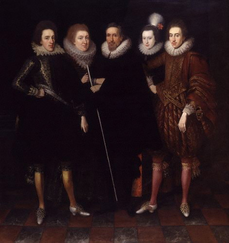 L-R: Henry Carey, 2nd Earl of Monmouth (1595-1661); Elizabeth, Countess of Monmouth; Robert Carey, 1st Earl of Monmouth (c1560-1639); Philadelphia, Lady Wharton; Thomas Carey.